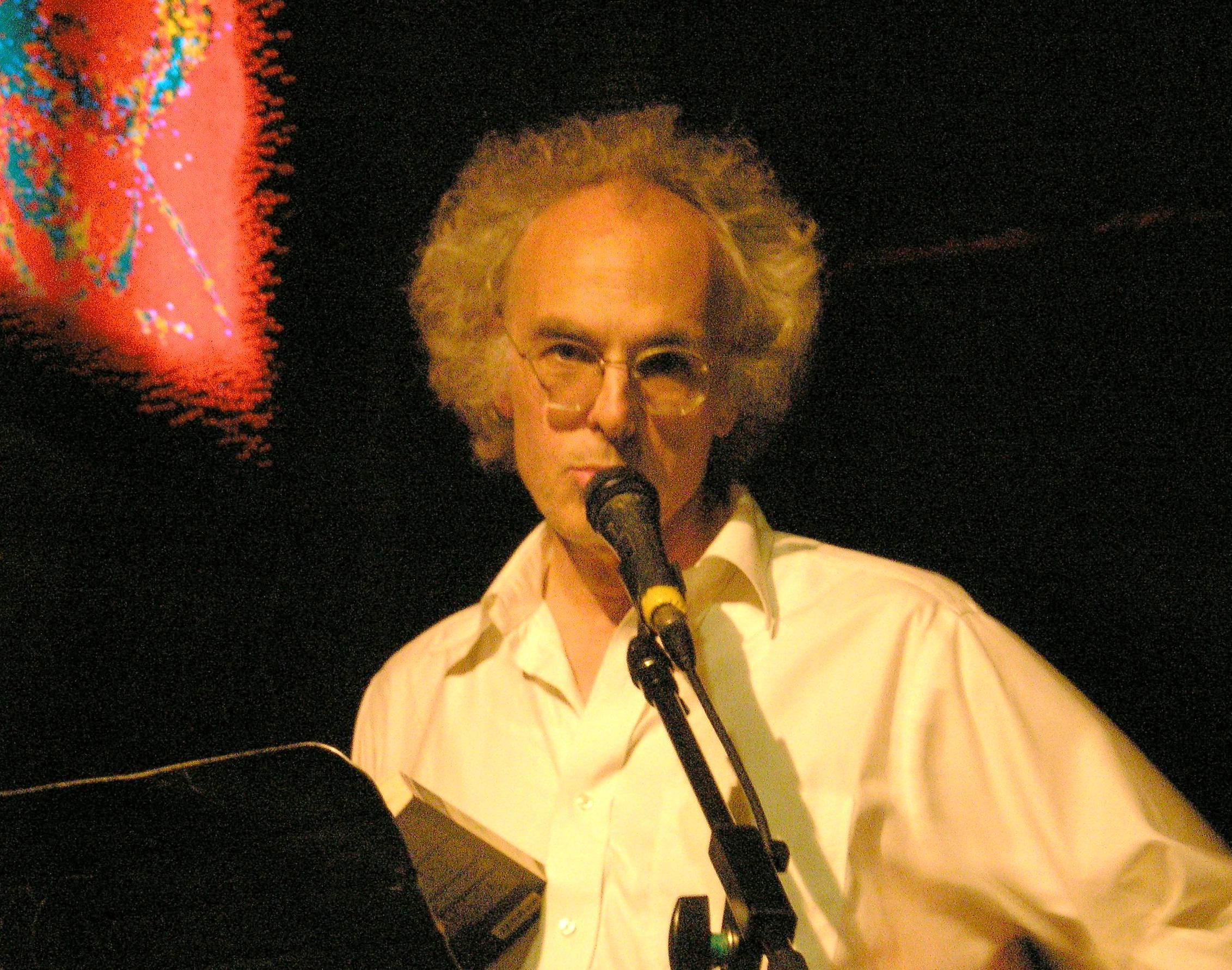 Writer David Gates (author) at the Bowery Poetry Club, New York City.